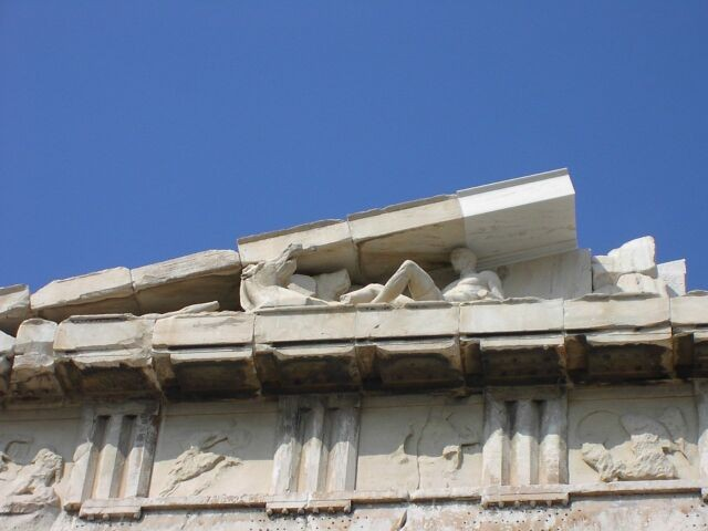 Athens, Parthenon, east side, one of the few remaining relief details.